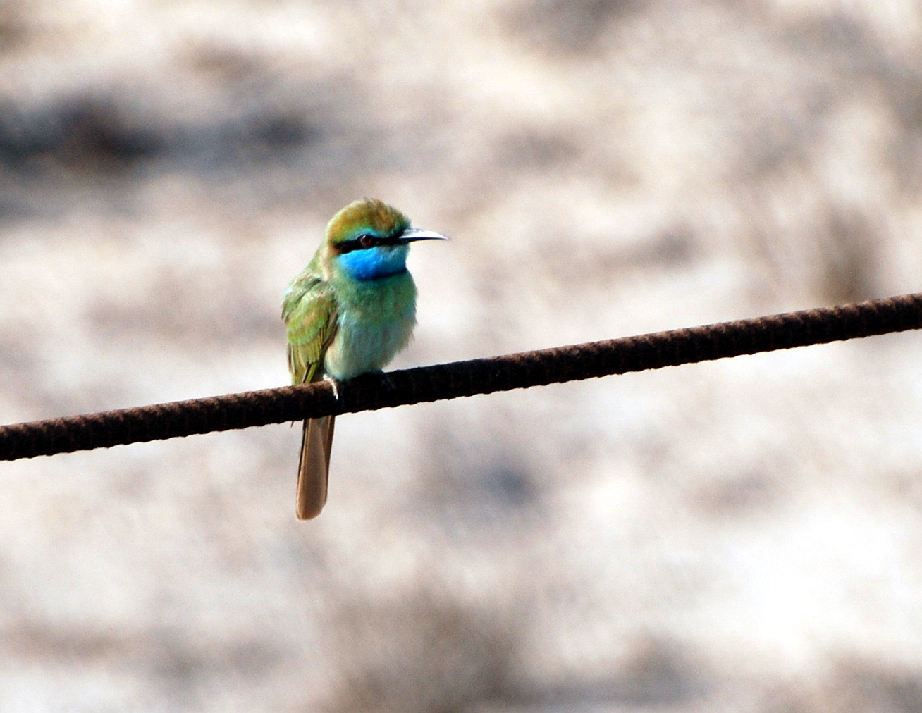 Little Green Bee-eater (Merops orientalis) in Dubai, UAE